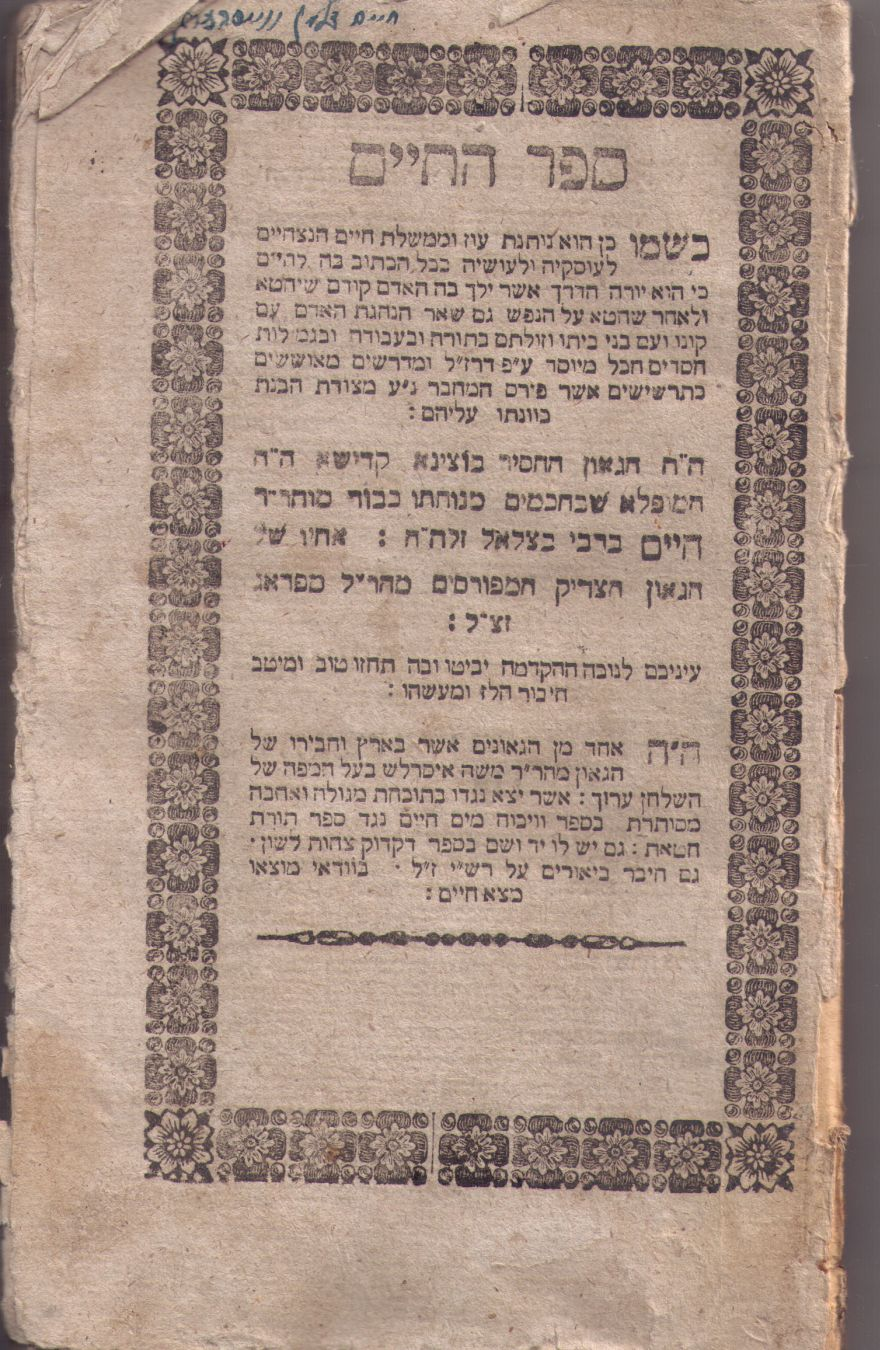 Sefer Hahaim, Lvov, 1830